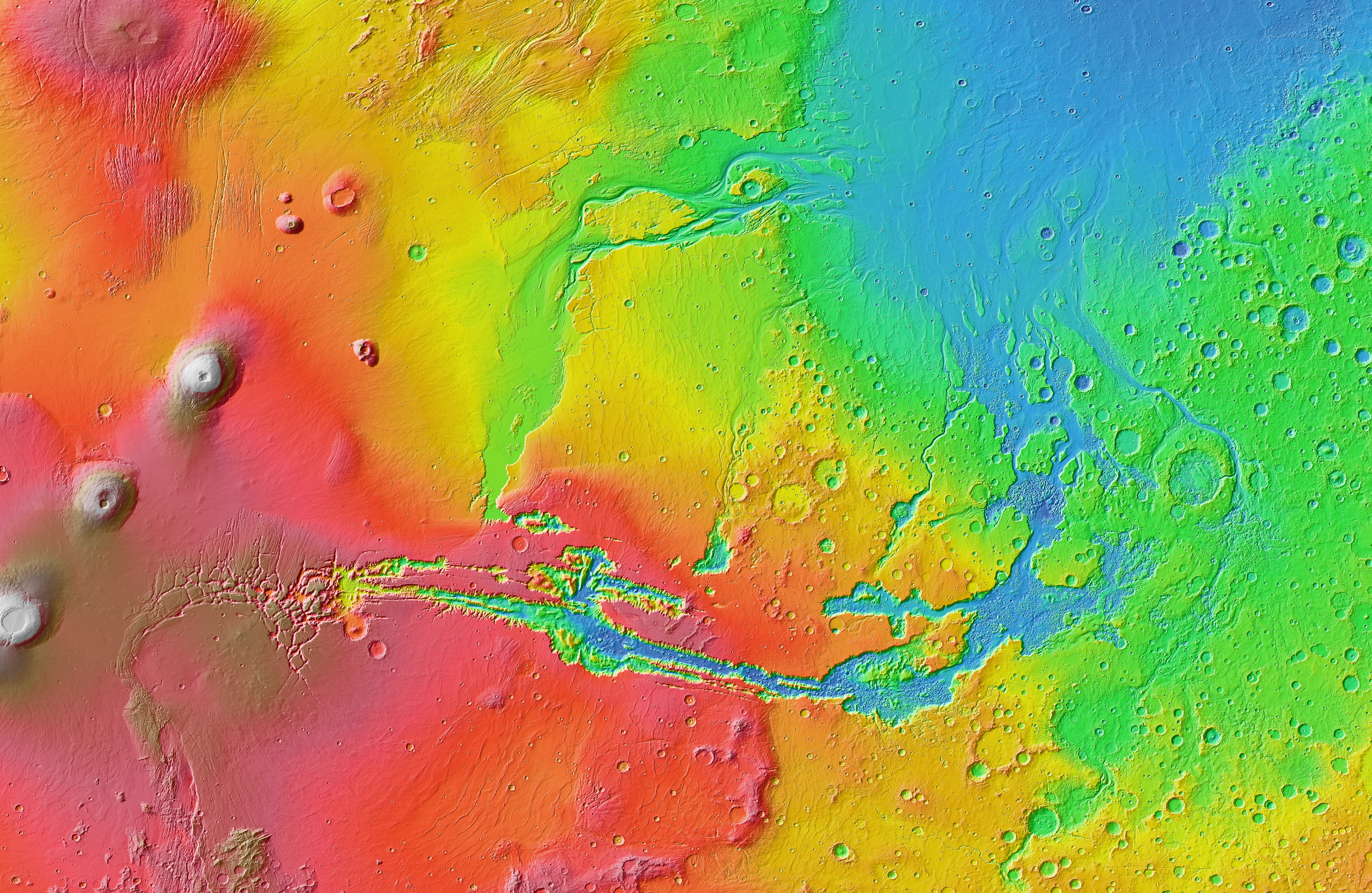 Mars Orbiter Laser Altimeter (MOLA) colorized topographic map of part of the western hemisphere of Mars, showing the region of Valles Marineris and its associated outflow channels. Many of the features on this map are annotated in Wikimedia Commons.